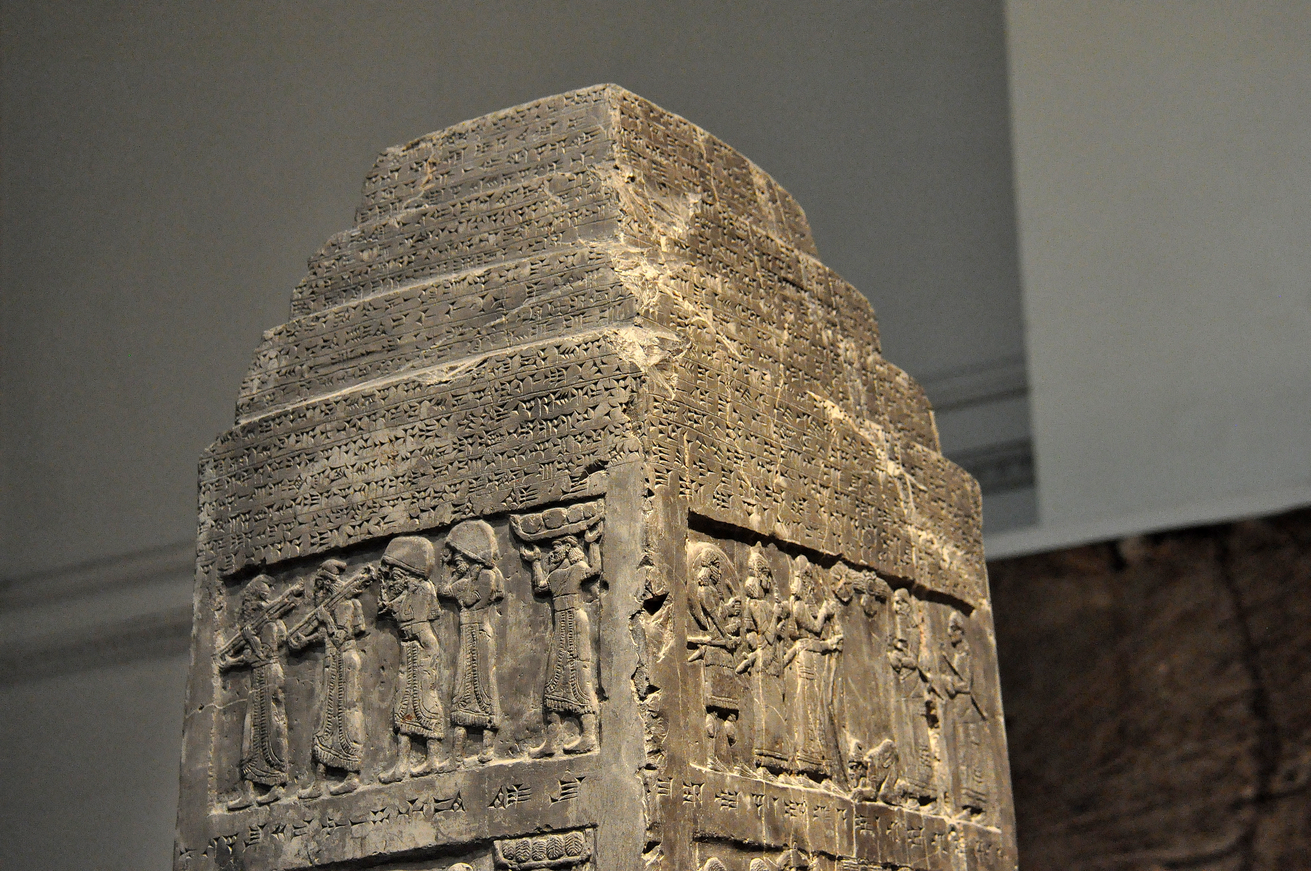 The upper part has a ziggurat-like end. The upper 1st (top) registers of sides A and D are shown in this picture. The king (side A, right), surrounded by his royal attendants and a high-ranking official, receives a tribute from Sua, king of Gilzanu (north-west Iran) , who bows and prostrates before the king. In side D (left), Gilzaneans appear to carry casseroles and other tribute for the king. From Nimrud, northern Mesopotamia (Iraq). Neo-Assyrian period, 825 BCE. The British Museum, London.